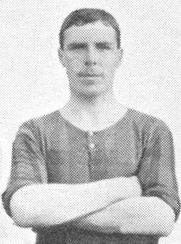 Jock Watson while at Brentford FC 1904/05